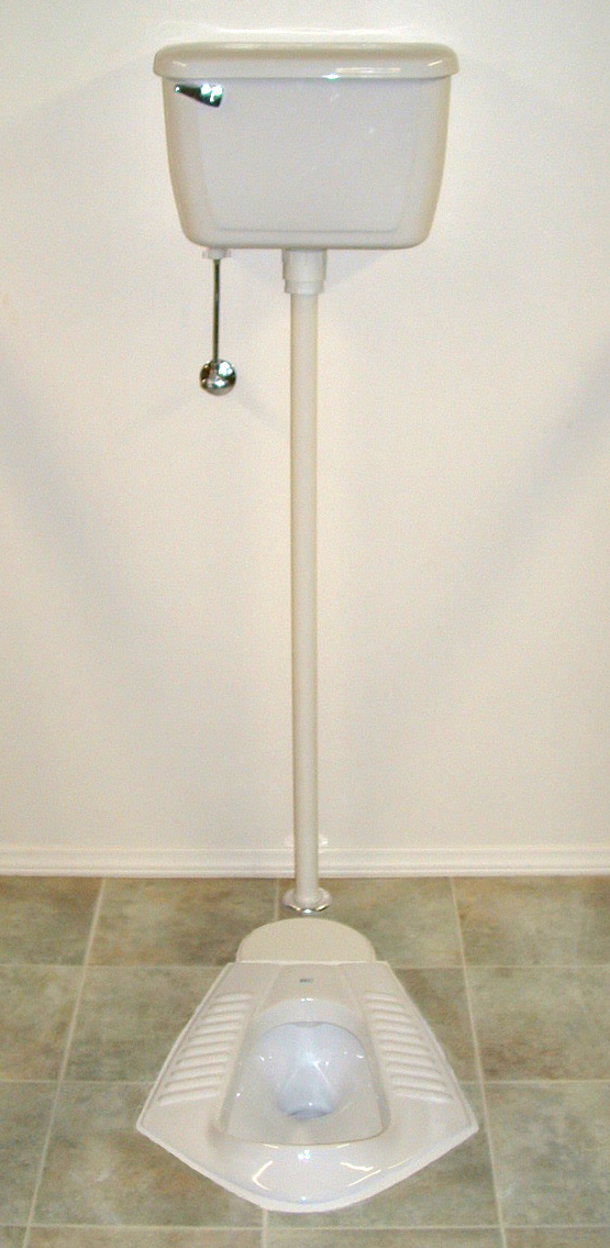 Full view of natural position (squat) toilet, including tank.